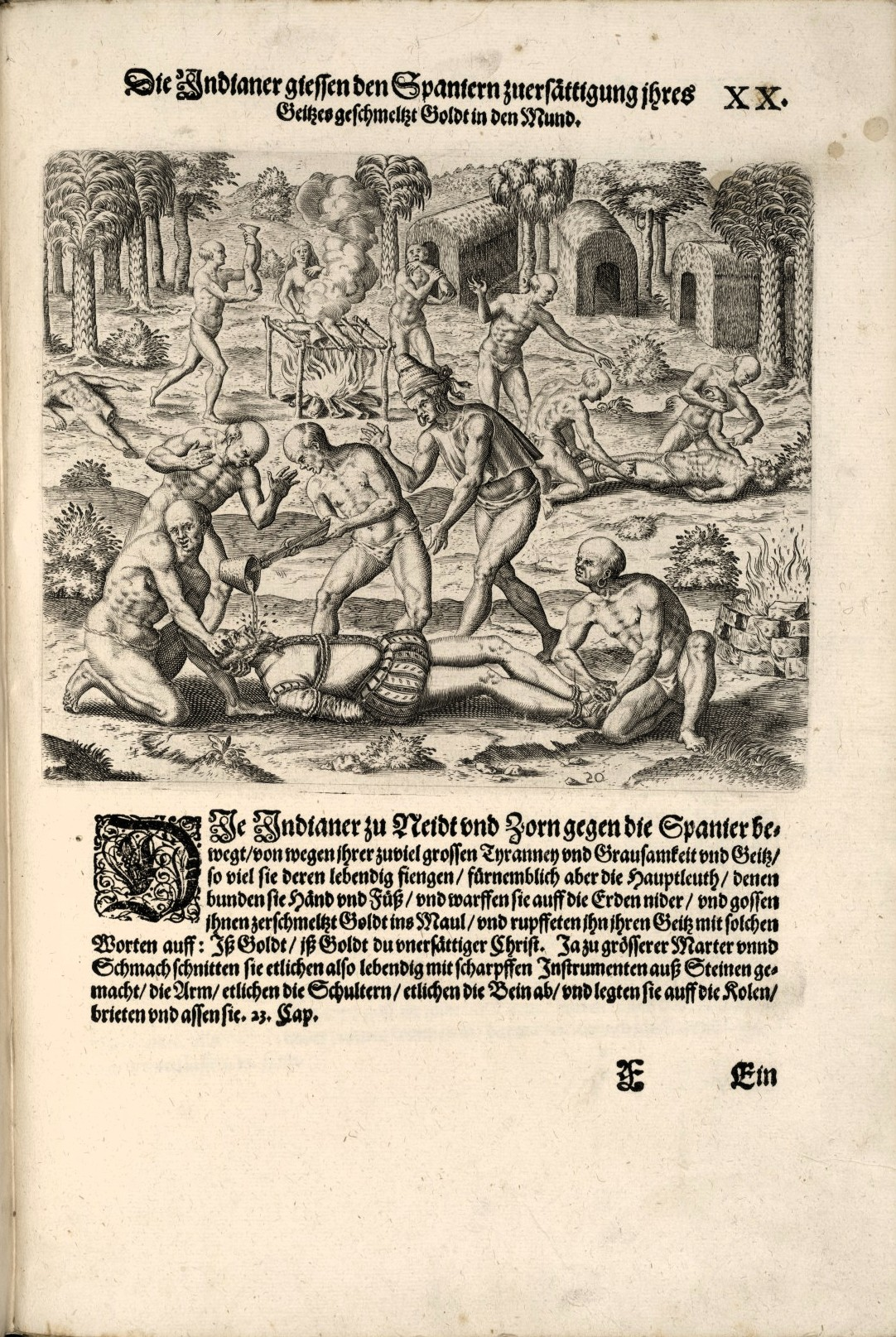 ‘The Indians, to satisfy their wickedness, pour molten gold in the mouths of the Spaniards.’ Book illustrated from vol.4 of the De Bry compilation of ""Grand voyages accounts to the Americas, and to Africa and the Orient".